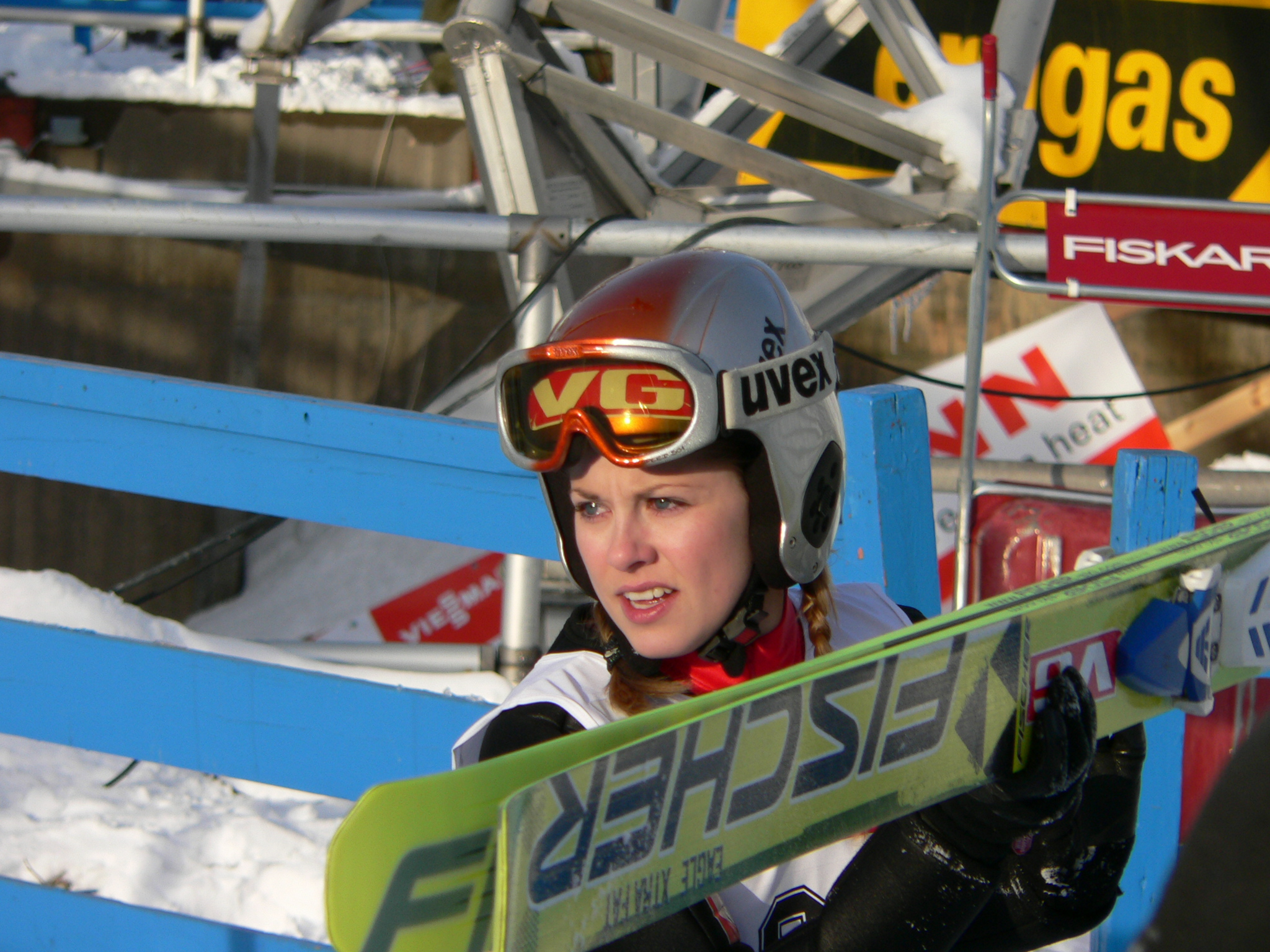 Norwegian ski jumper Anette Sagen in Holmenkollen 2005